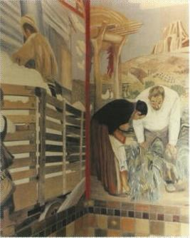 Portion of a mural by Olive Rush located in the Biology Building at New Mexico State University in Las Cruces, New Mexico, produced under a federal WPA contract.